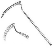 Sickle and scythe without labels.